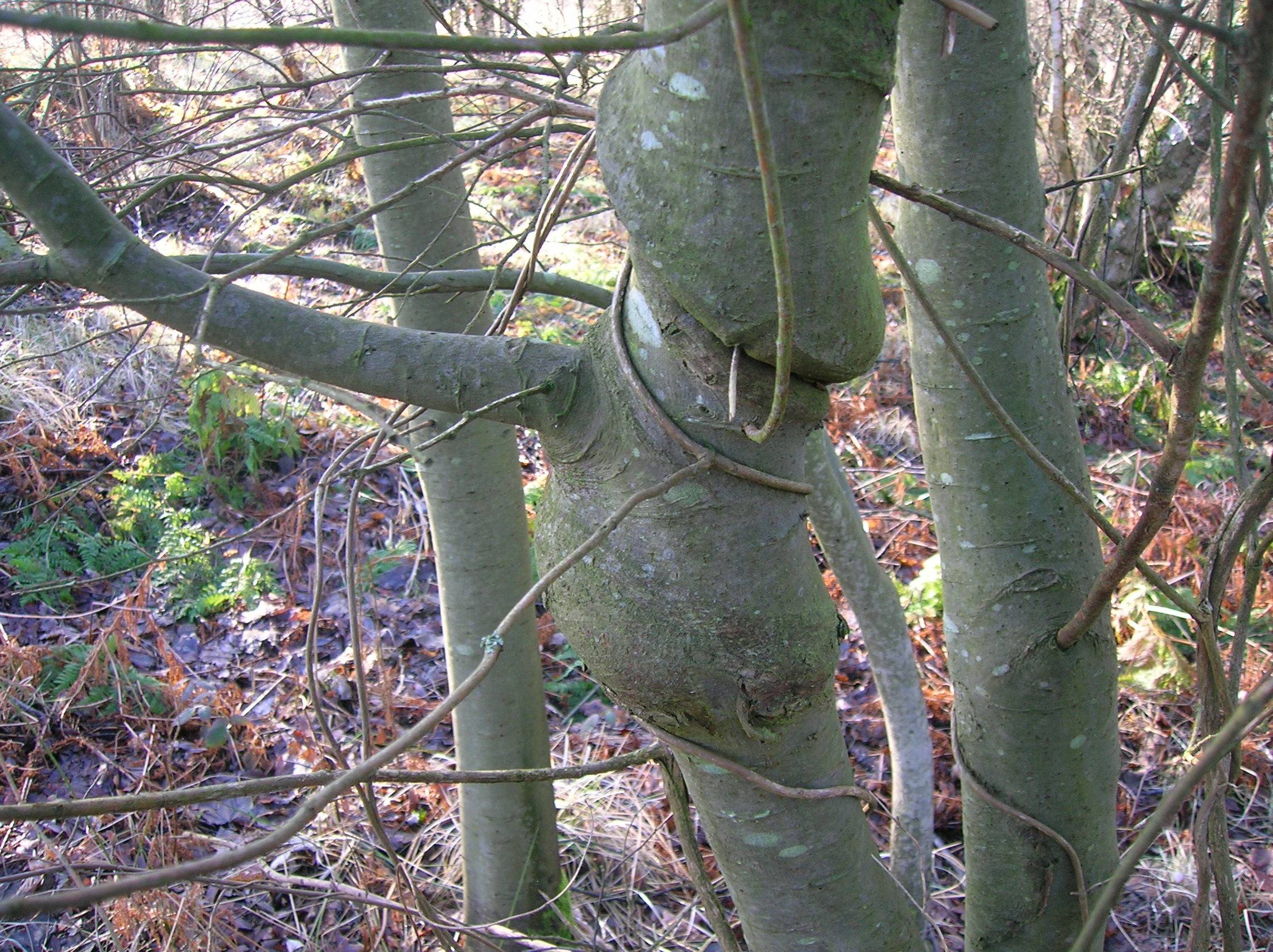 Willow tree with Honeysuckle woodbine. Eglinton Castle, Ayrshire, Scotland